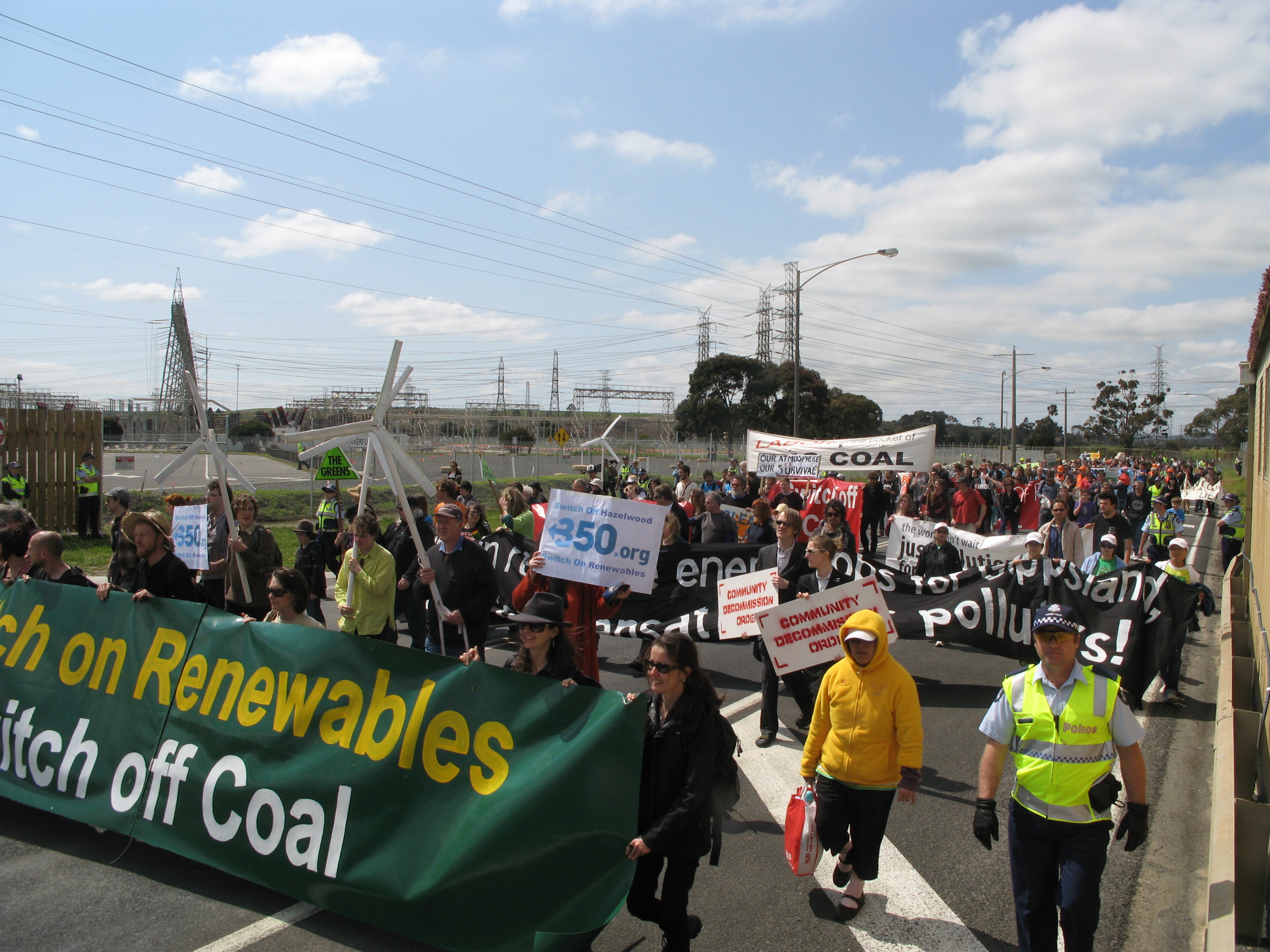 The rally moves down the road alongside the Hazelwood power station (substation) during the October 10, 2010 rally.